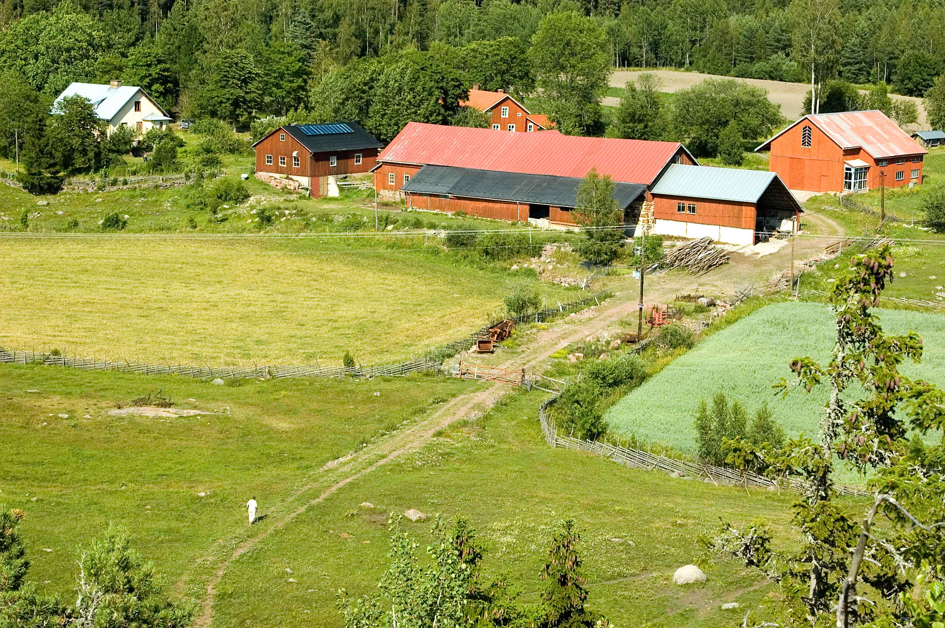 An aerial photo of Borgboda a farm in Saltvik, Åland, Finland. Owner Erik Lindholm.